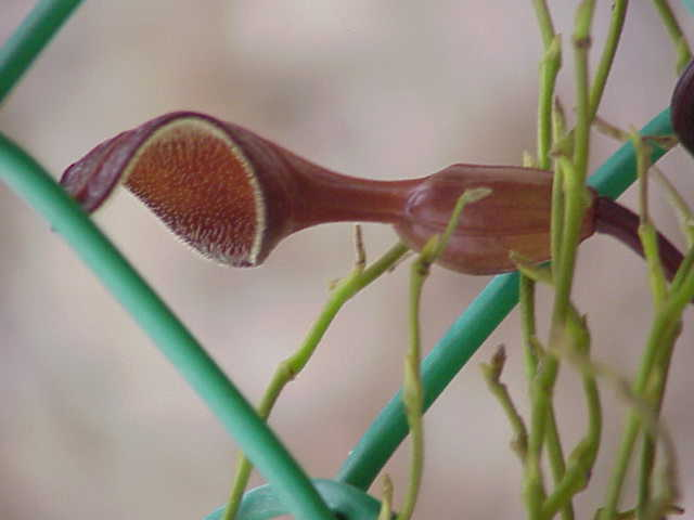 Species: Aristolochia maxima Family: Aristolochiaceae Image No. 5